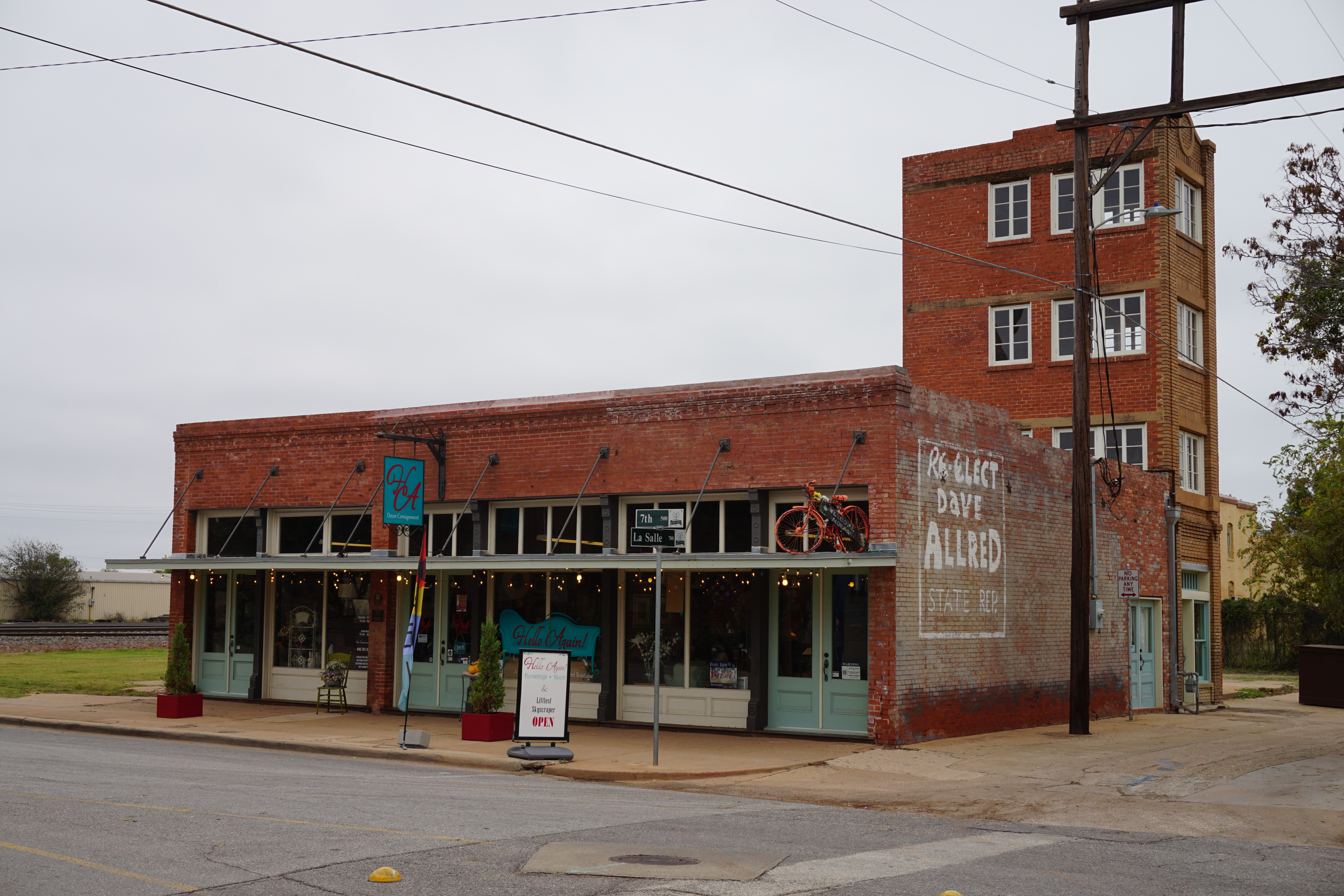 Hello Again! and the "world's littlest skyscraper" in Wichita Falls, Texas (United States).